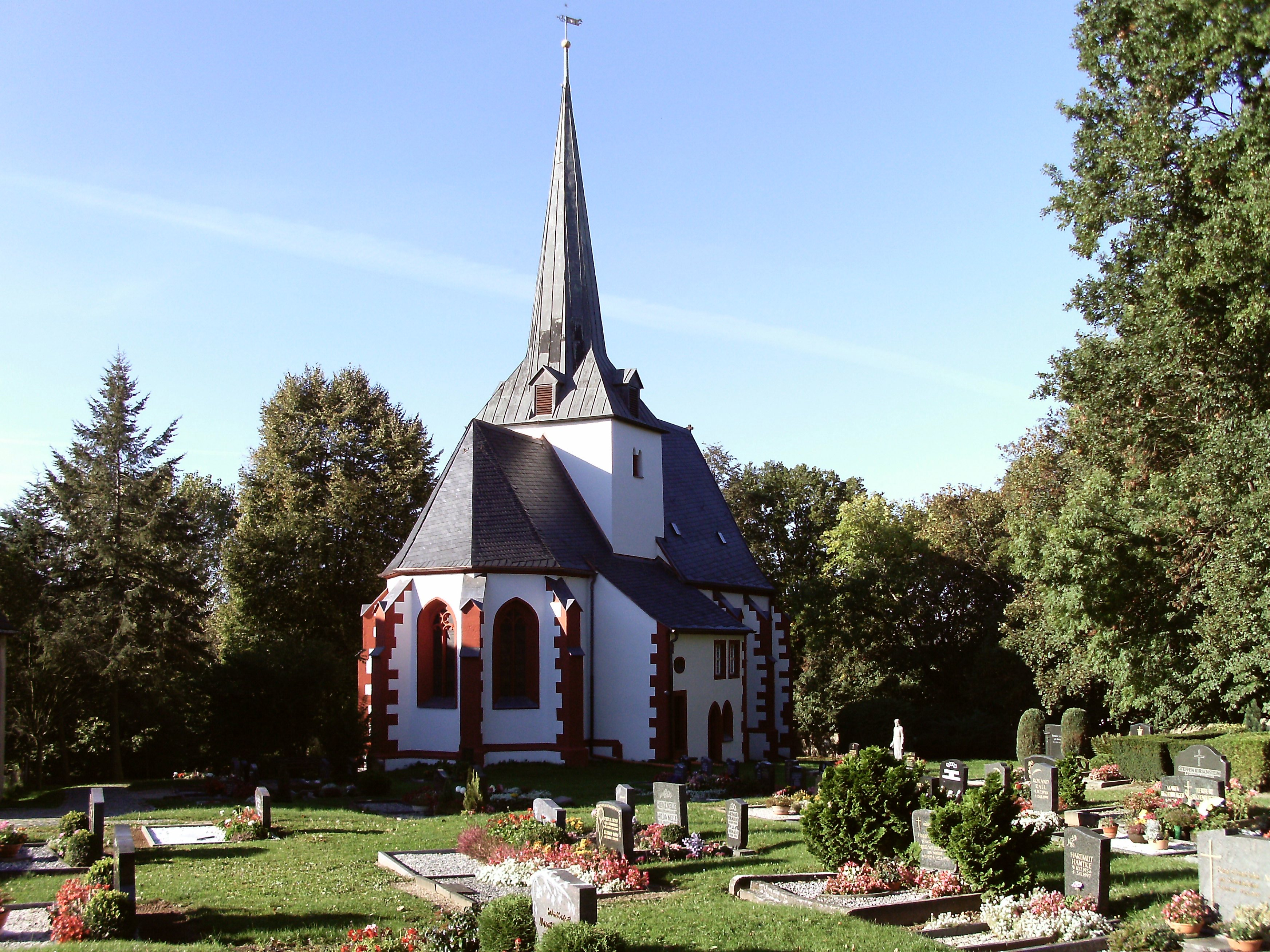 Niedergräfenhain church (Geithain, Leipzig district, Saxony)